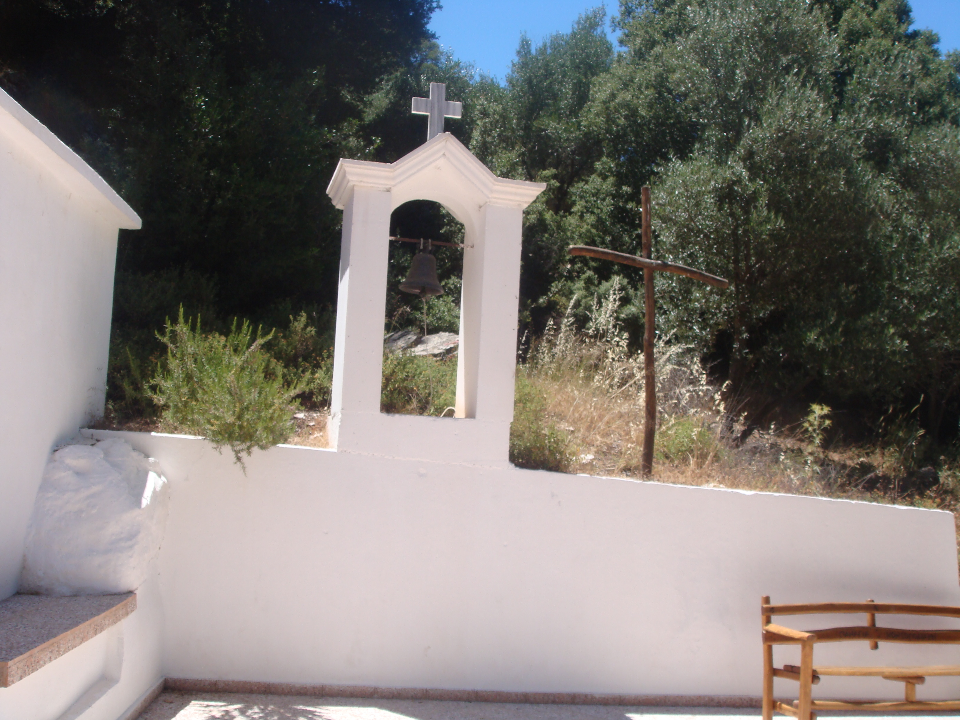 Church of Panagia Katopodiani, in Katofiyi, Iraklion prefecture.